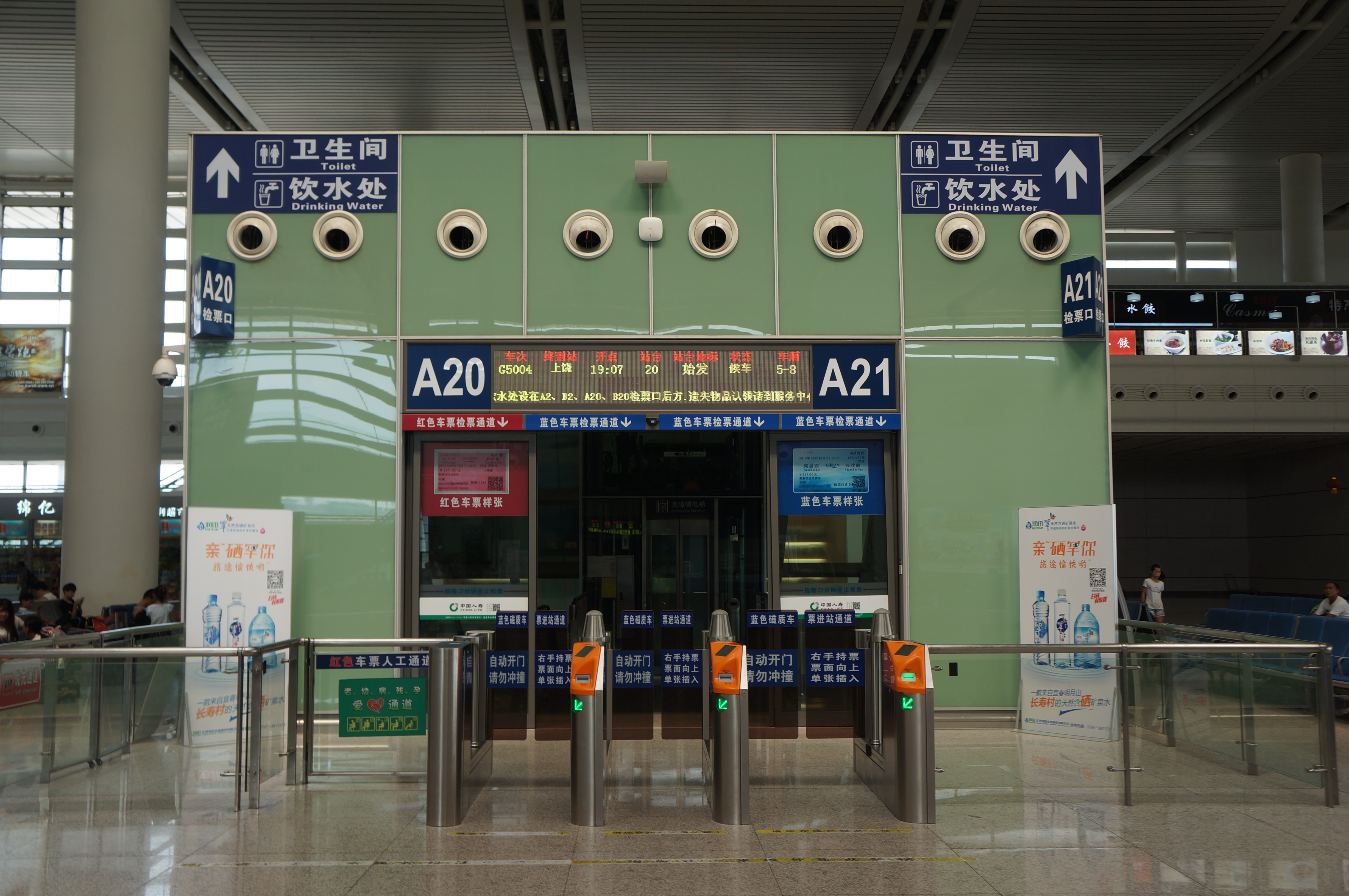 201608 Boarding gate A20,21 of Nanchangxi Station, with decoration full of Nanchang Railway Bureau Style, which is large blue and red posters shows the relative entrances for passengers.